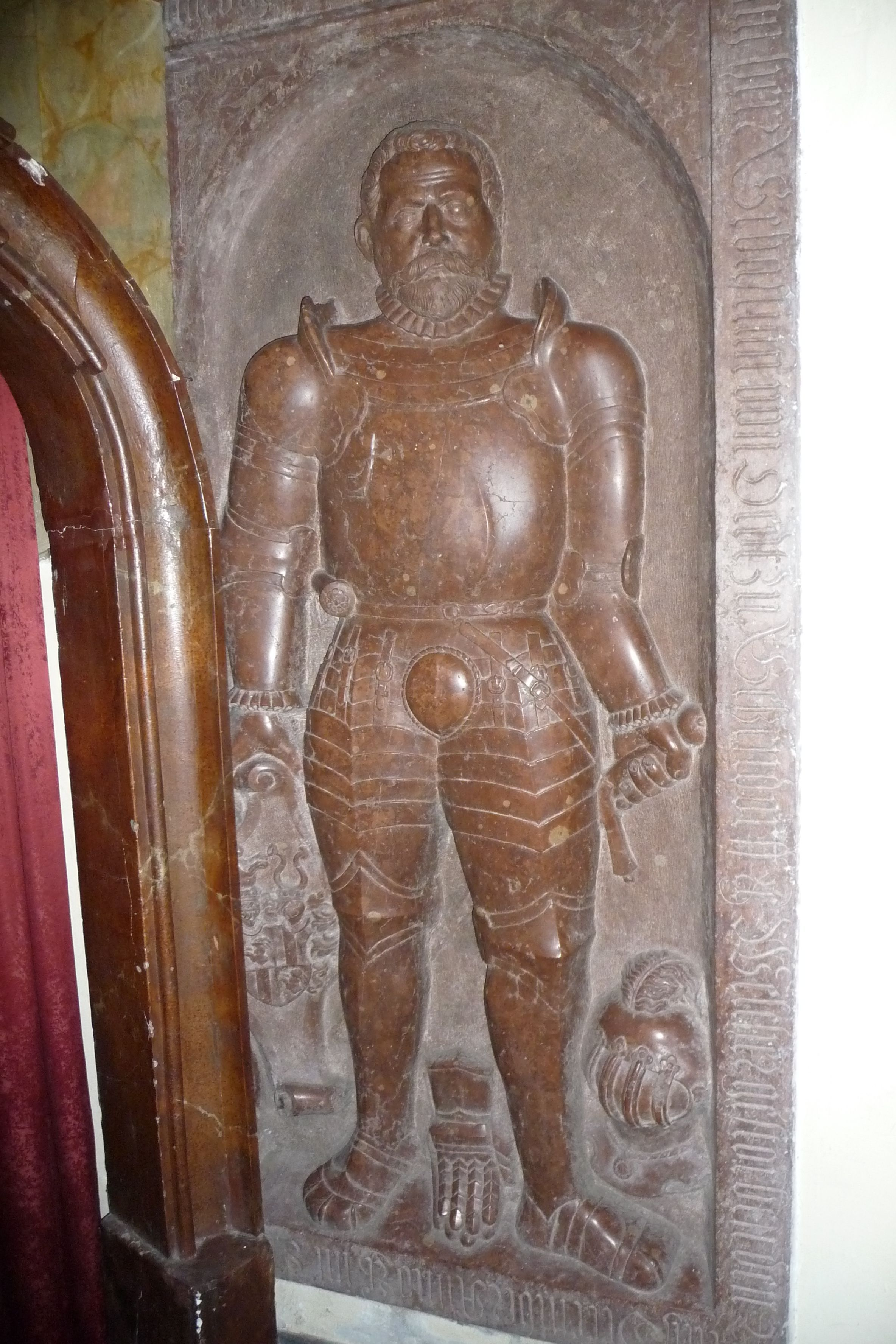 Parish church in Rohrbach Upper Austria - Epitaph of Sebastian von Oedt at Götzendorf castle (died 1583)